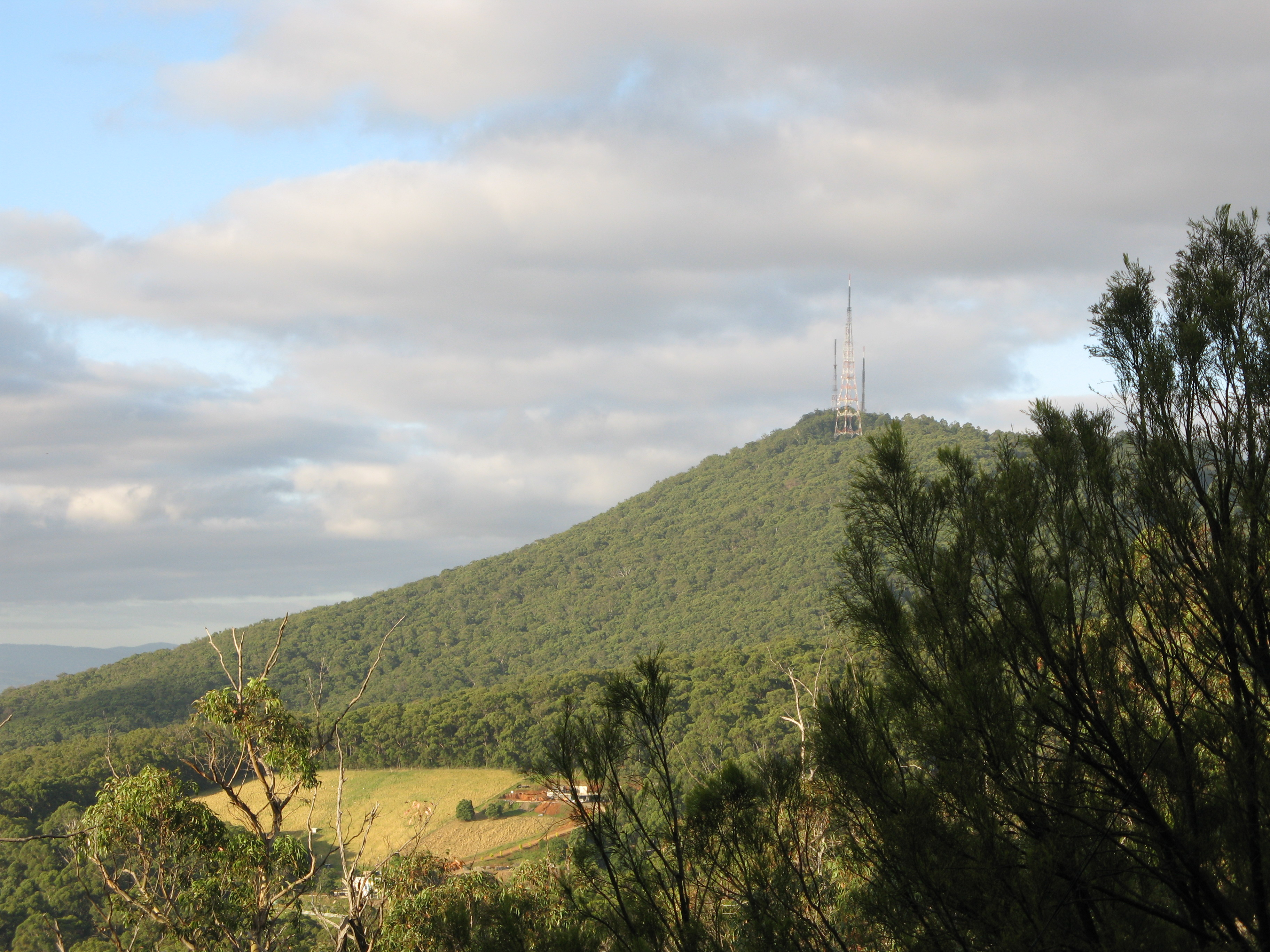 Mt Corhanwarrabul summit from the northern face of One Tree Hill, Dandenong Ranges, Victoria, Australia. Photo taken by Nick carson in January 2010.